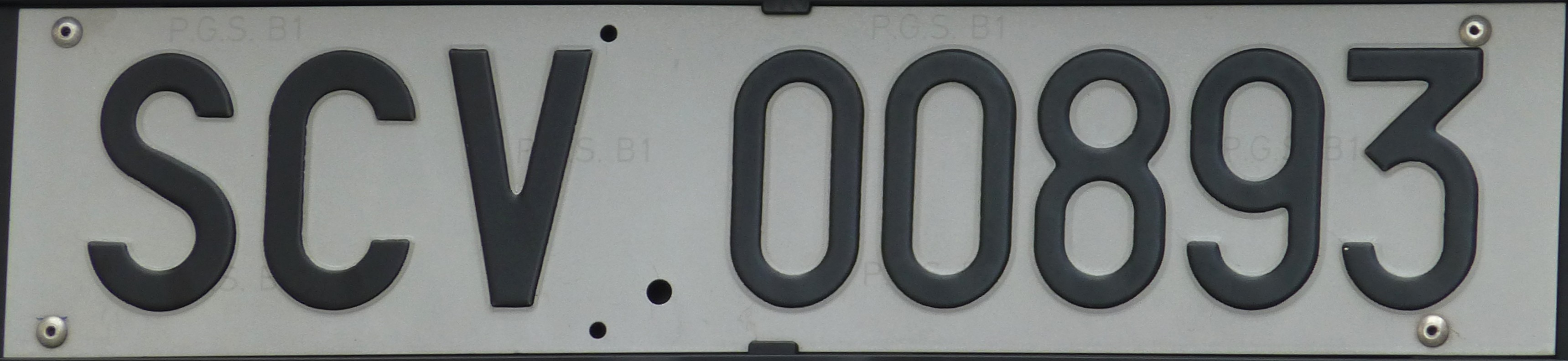 License plate of the Vatican City for official vehicles, SCV = Stato della Città del Vaticano